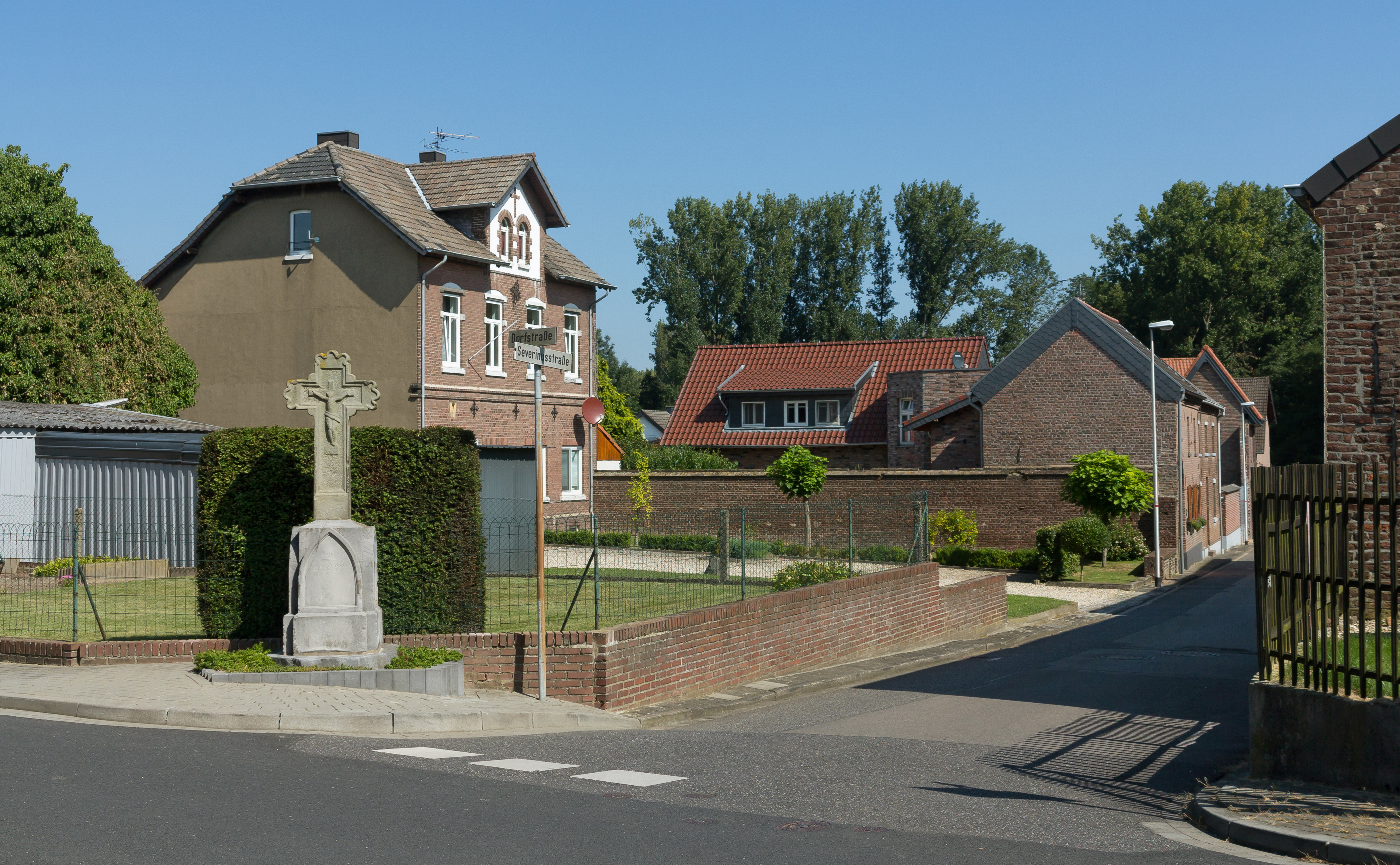 Wehr, sculpture near Severinusstrasse-Dorfstrasse